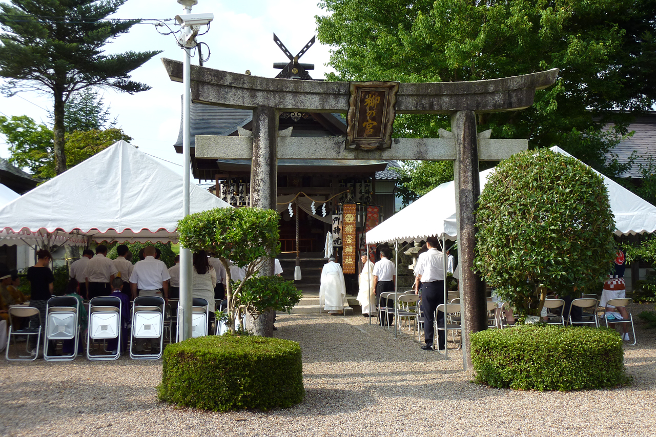 Yanagi-Matsuri Festival in Toyooka, Hyogo Prefecture, Japan.